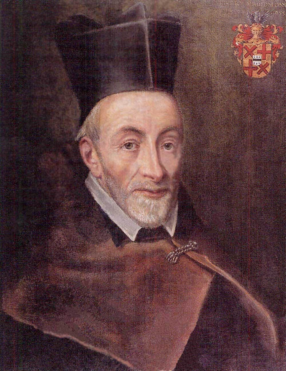 Libert Froidmont also Libertus Fromundus Fromond, Fromondus, Fromont; (1587-1653) French mathematician, astronomer, philosopher and Catholic theologian